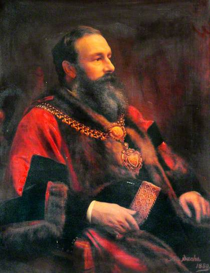 Angus Holden by Albert Sachs Other information